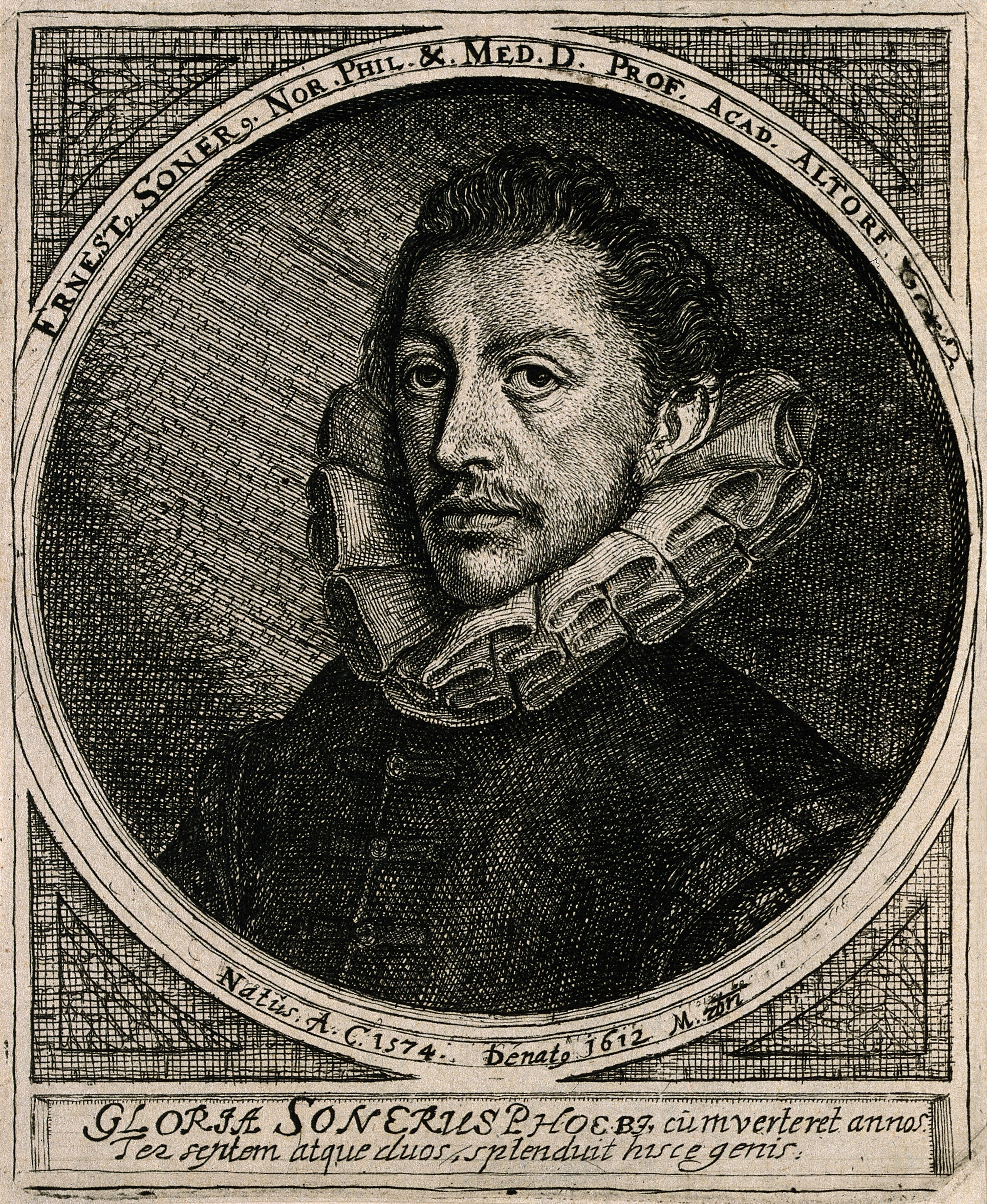 Ernst Soner. Etching. Iconographic Collections Keywords: portrait prints; etchings; Ernst Soner